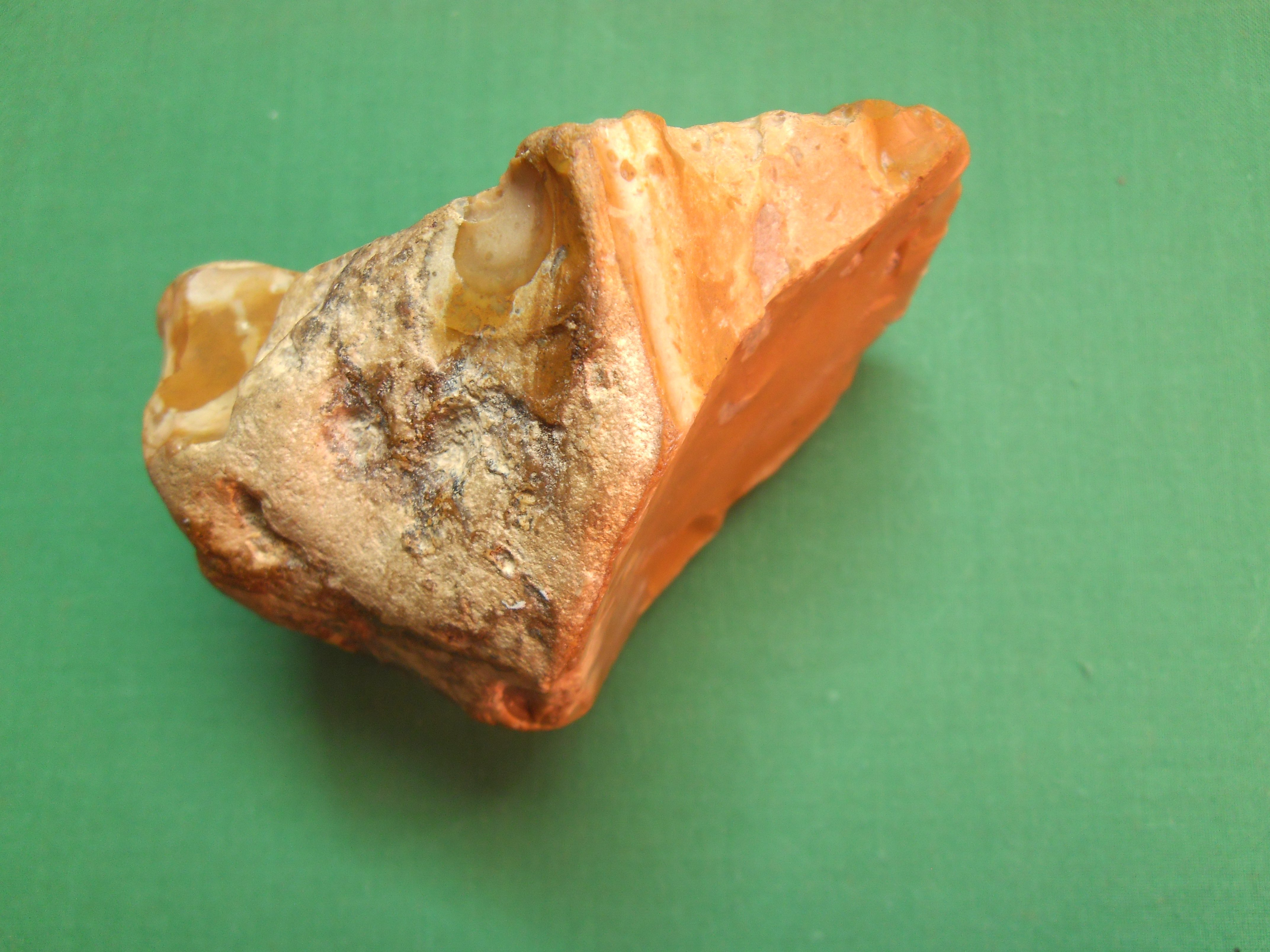 Flint hand axe